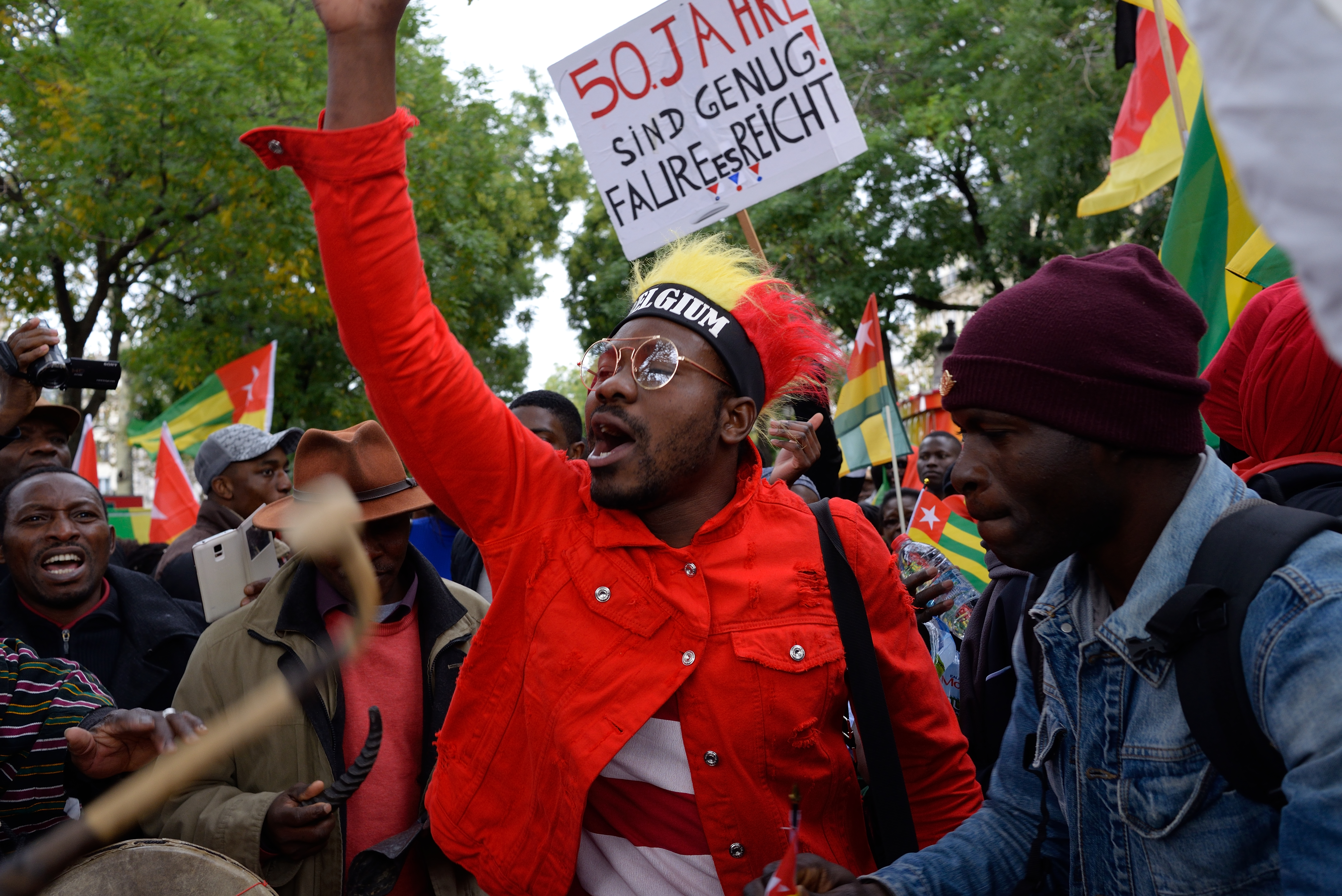 Protest against the Togolese leader Faure Gnassingbé in Belgium.